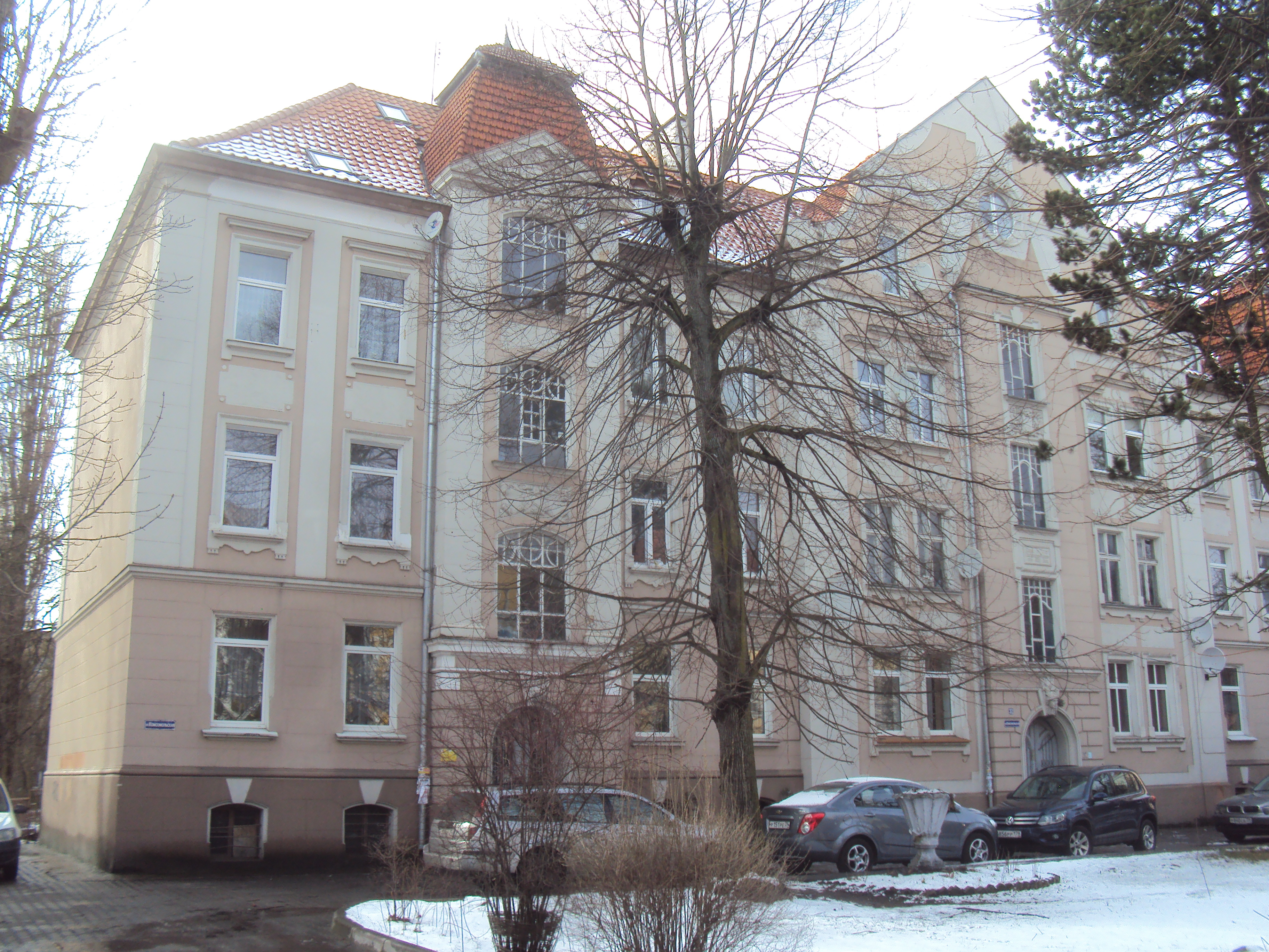 dwelling house